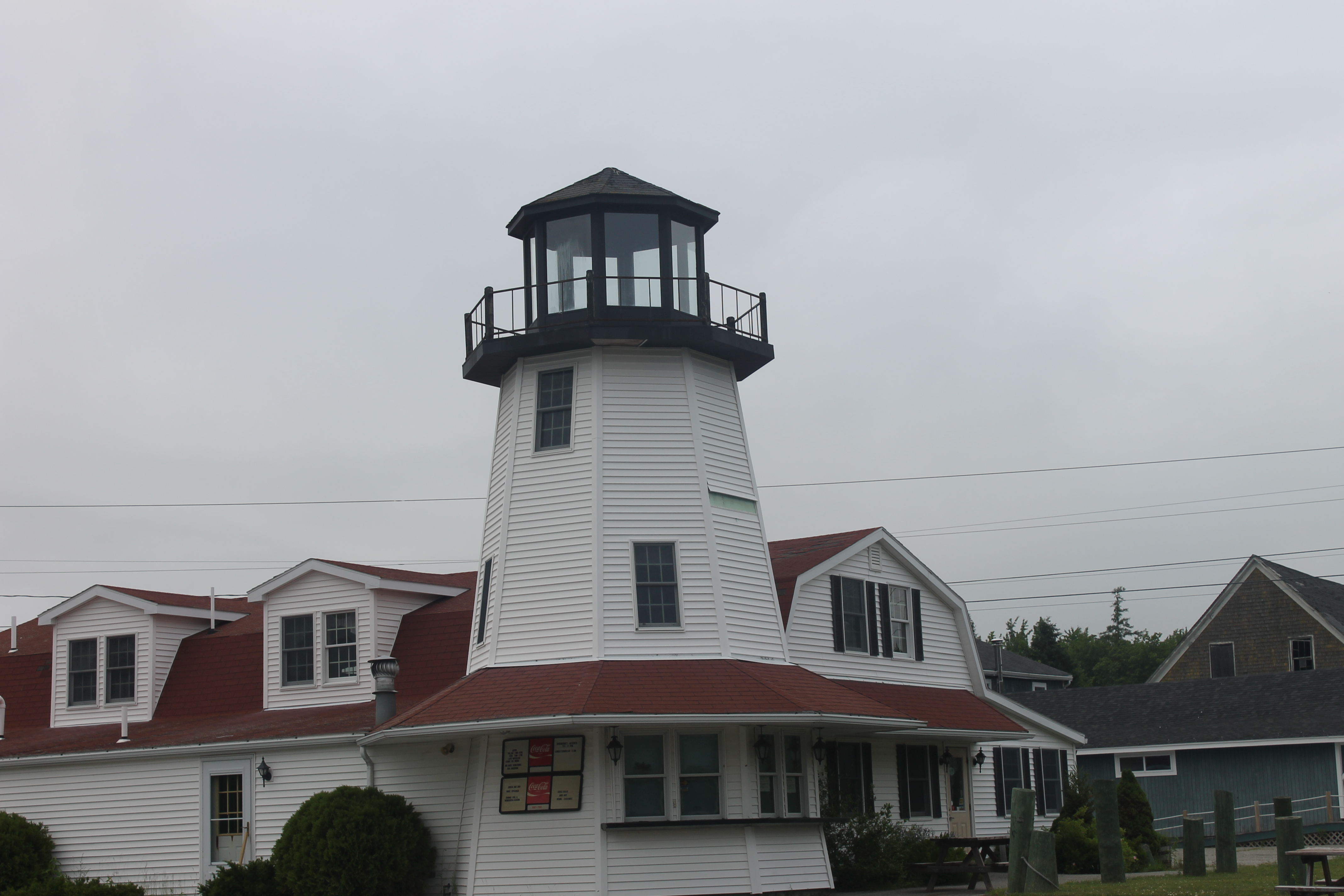 I took photo of Trenton Lighthouse, a business building, in Trenton, ME, using a Canon camera.